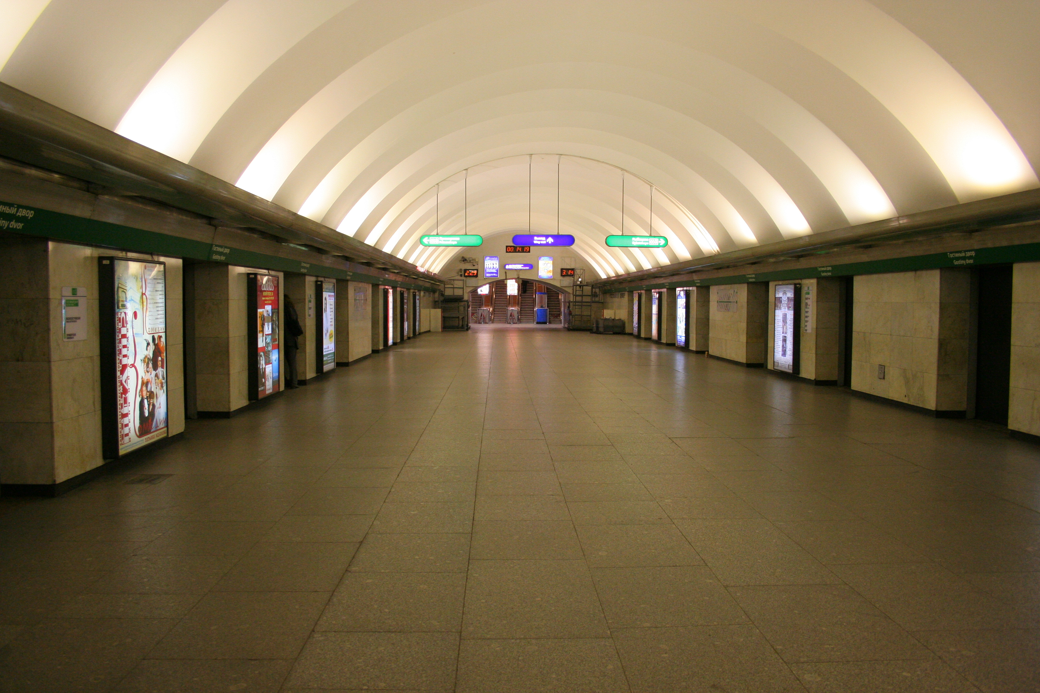 Gostiny Dvor station of Saint Petersburg Metro